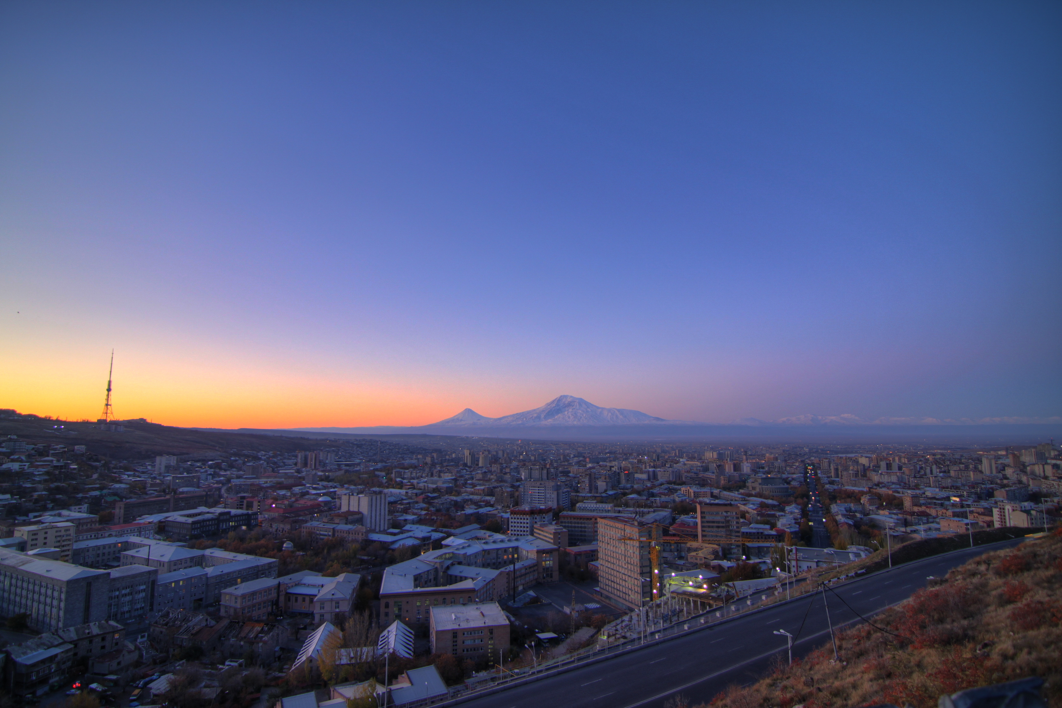 A view at dawn of Yerevan, the capital city of the Republic of Armenia, with the backdrop of Mount Ararat (locally known as Masis).